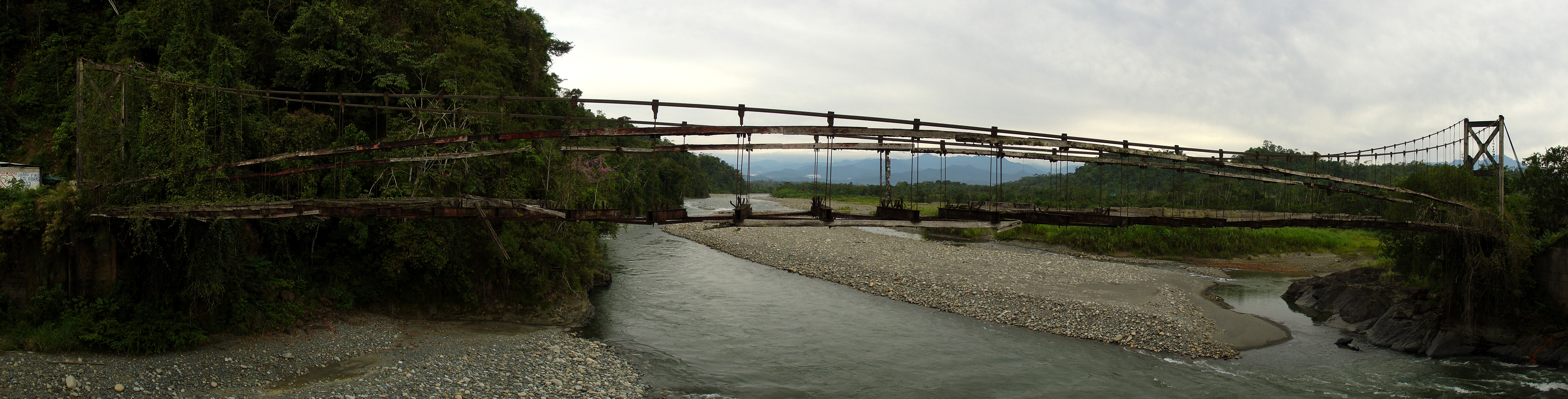 Please, have this description accessible to all by translating it in different languages.